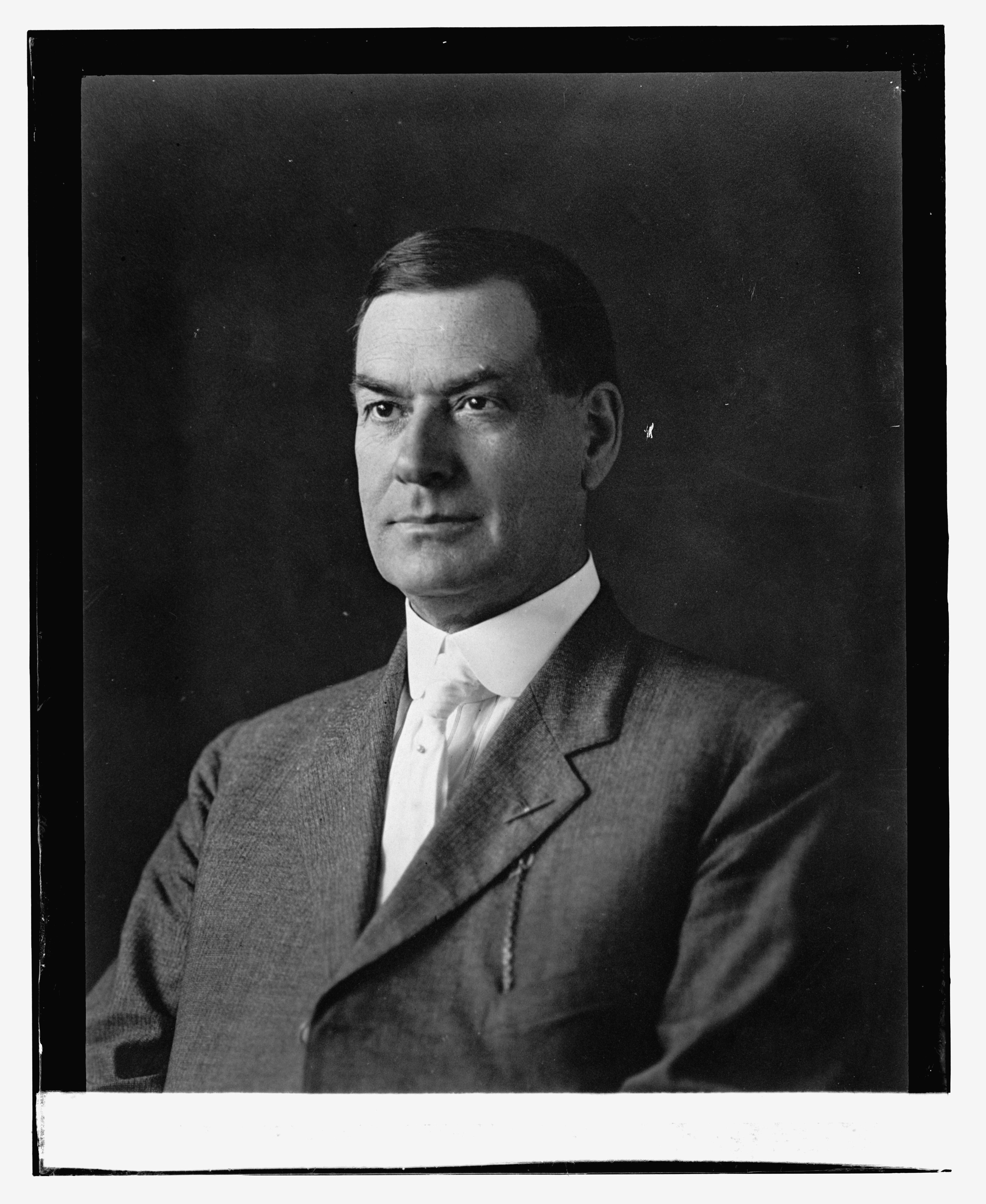 Title: Sen. Wesley L. Jones of Wash. Abstract/medium: National Photo Company Collection (Library of Congress) Physical description: 1 negative